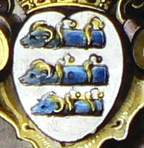 James Bertie, 1st Earl of Abingdon, coat of arms, 17th Century Earl. Conservative - supported the crown